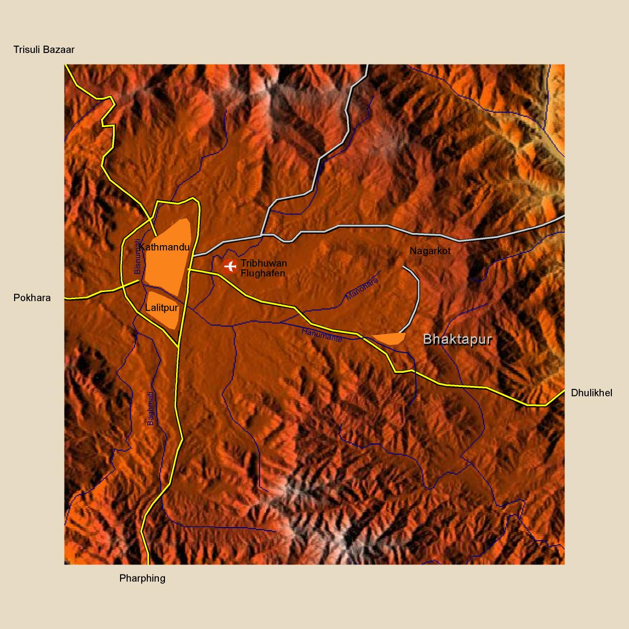 Traffic situation around Bhaktapur (Nepal)